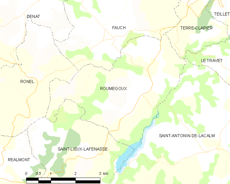 Map of French municipality Roumégoux